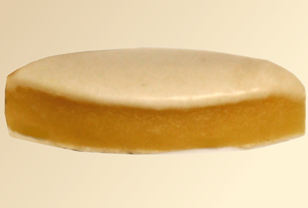 Calisson from Aix-en-Provence.